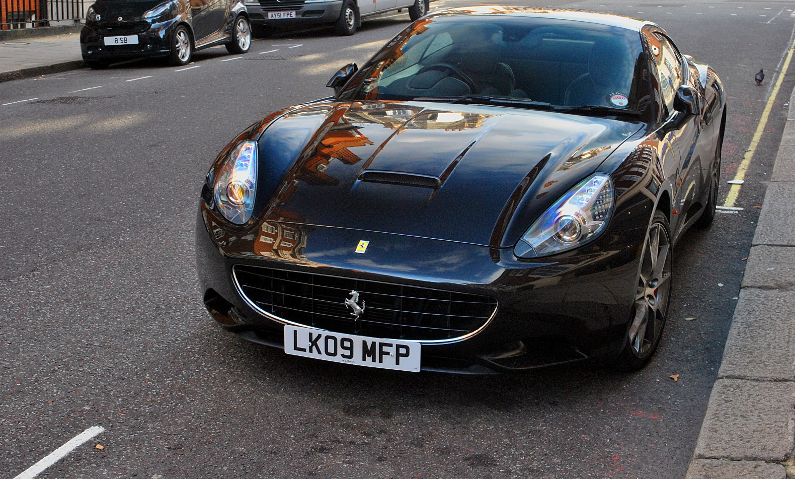 2009 Ferrari California pictured in London